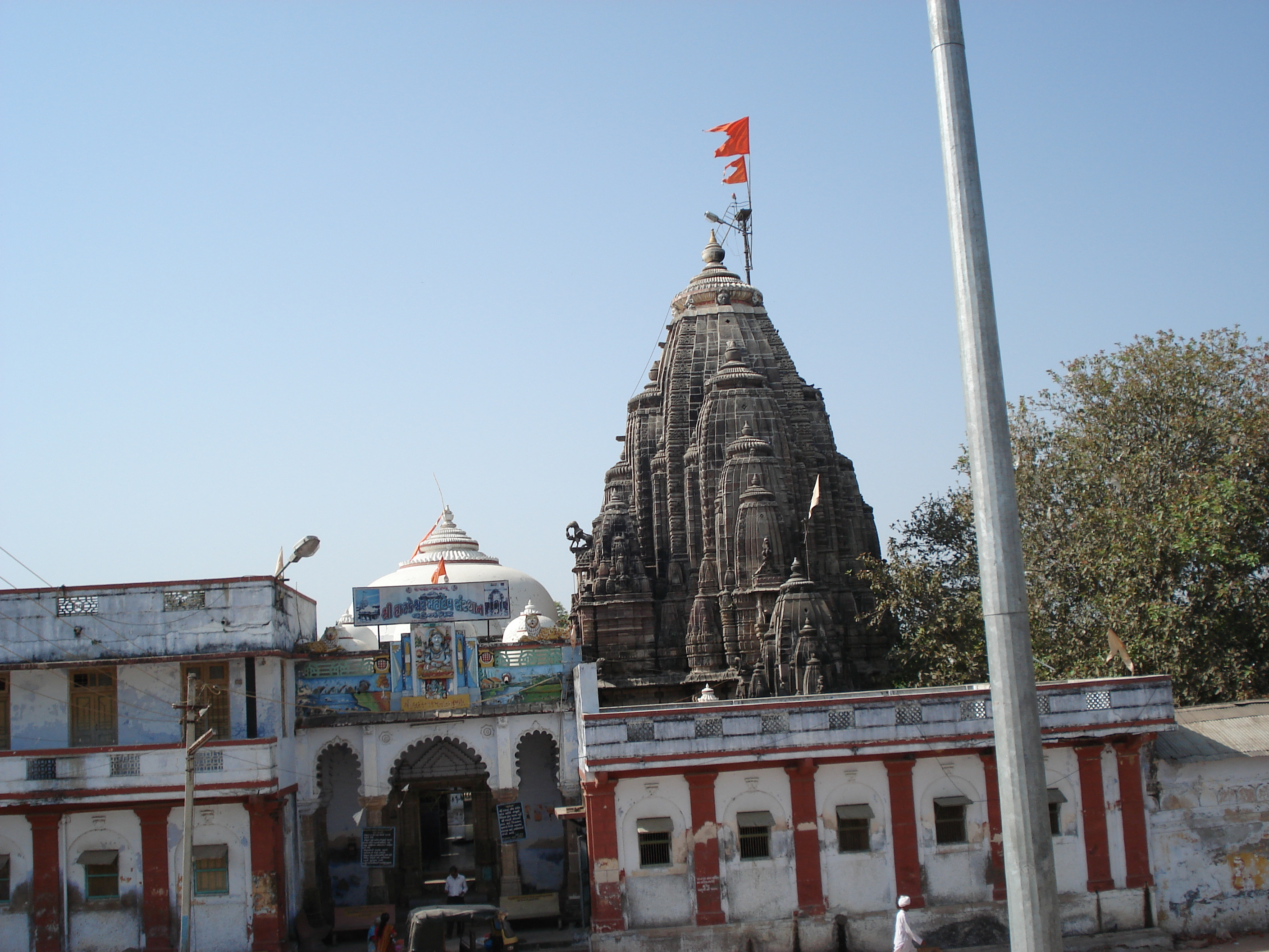 Hatkeshwar Mahadev Temple - Vadnagar